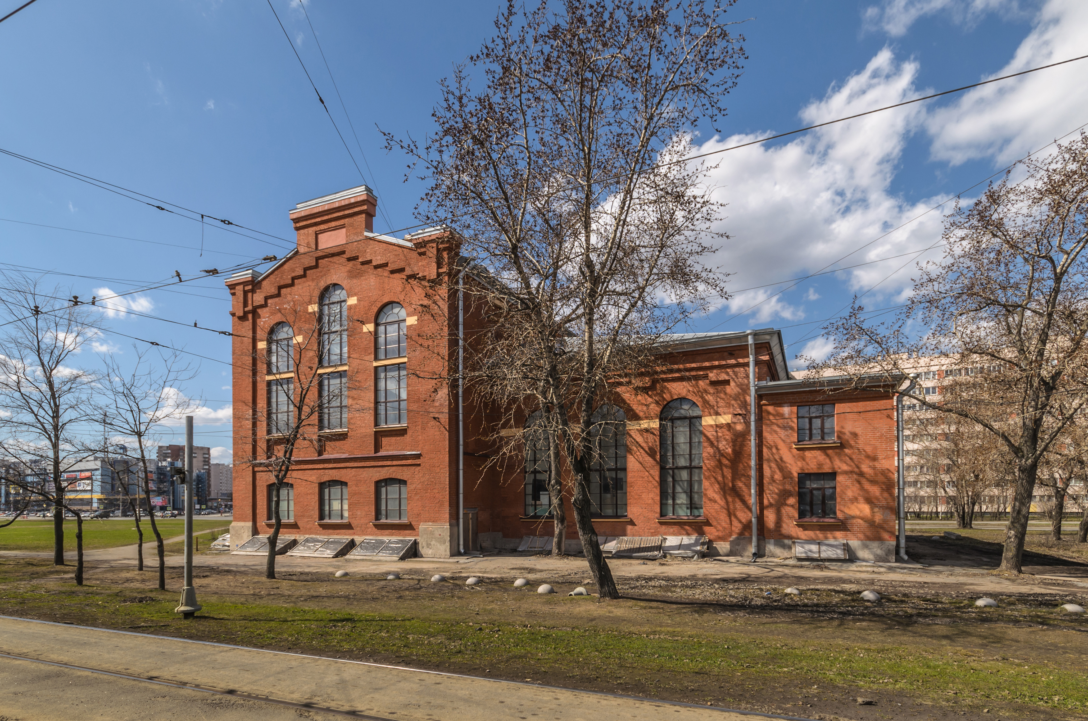 Former tram network electric substation in Saint Petersburg